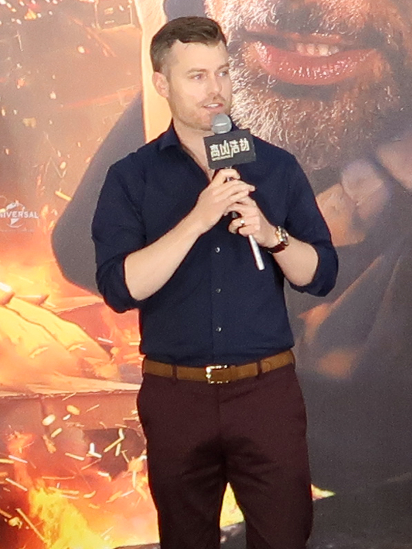 Rawson Marshall Thurber